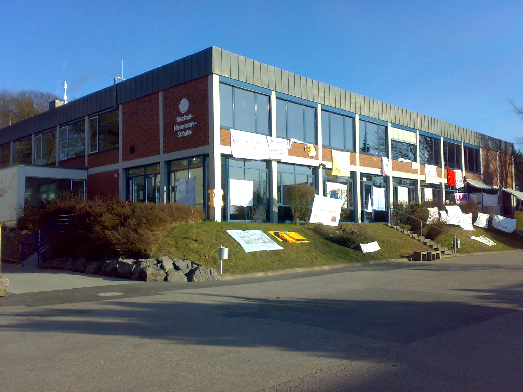 Bishop-Neumann-School in Königstein im Taunus, Germany